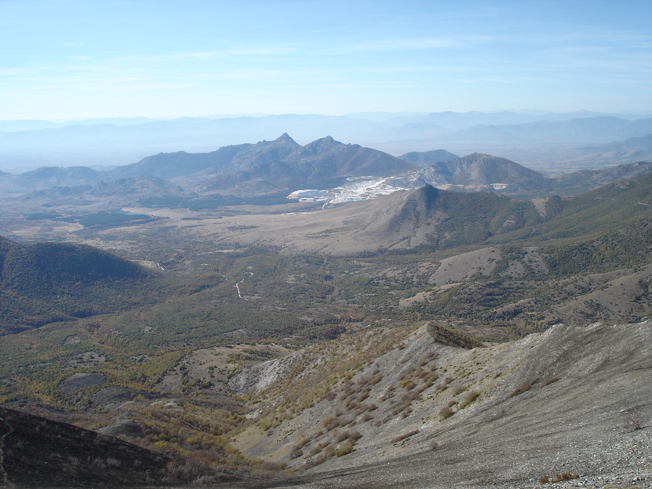 Zlato ridge of Babuna mountain, Macedonia